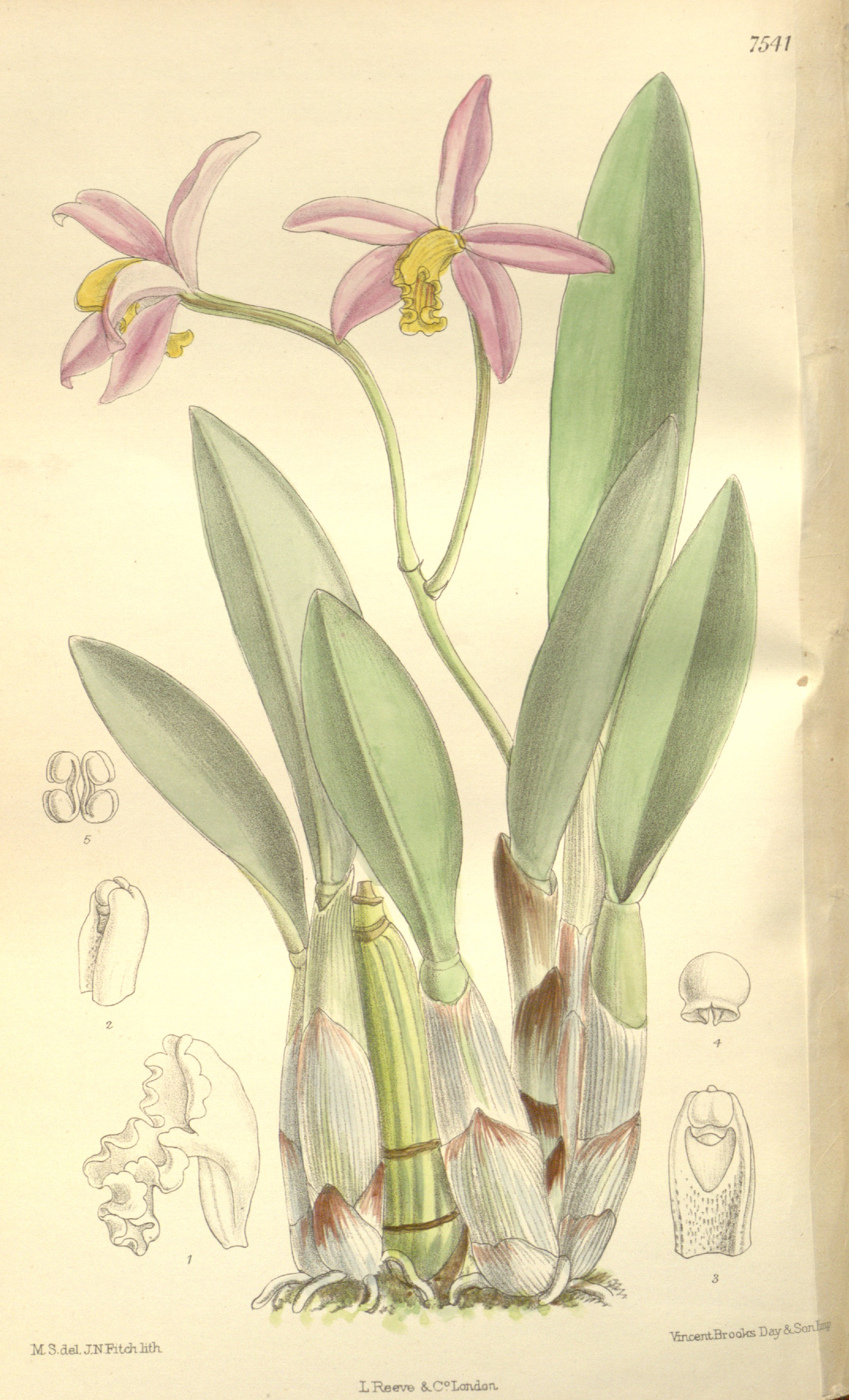 Illustration of Cattleya longipes or Sophronitis longipes (as syn. Laelia longipes)